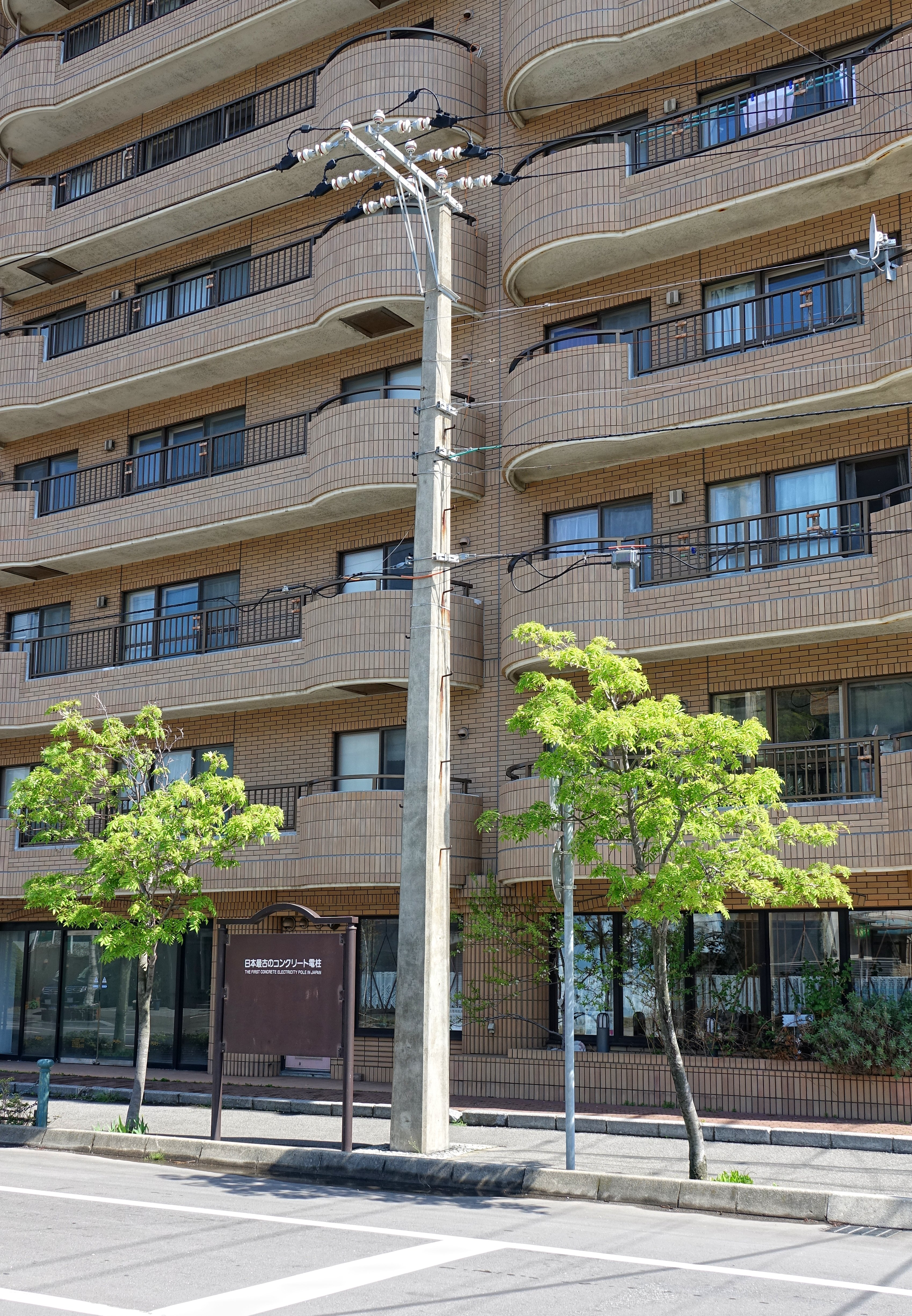 Dating back to 1923, this is the oldest concrete utility pole in Japan. It was design to match the architecture of a bank building, funded by the Hakodate Branch of the former Hokkaido Takushoku Bank. Still in place at the bottom of Nijukken-saka hill in Hakodate, Japan, the utility pole is still in use to this day, making the oldest concrete utility pole in the country.